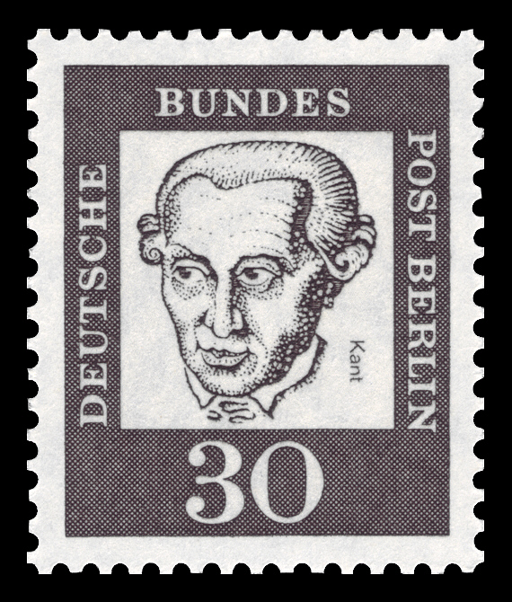 Series of Berlin stamps of distinguished German Graphics by Michel und Kieser Ausgabepreis: 30 Pfennig First Day of Issue / Erstausgabetag: 7. Oktober 1961 Michel-Katalog-Nr: 206 (Berlin)